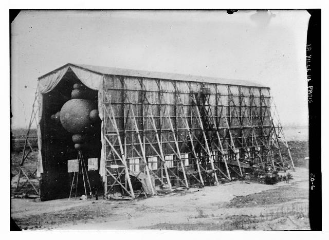 Shed for dirigible balloon La Ville de Paris